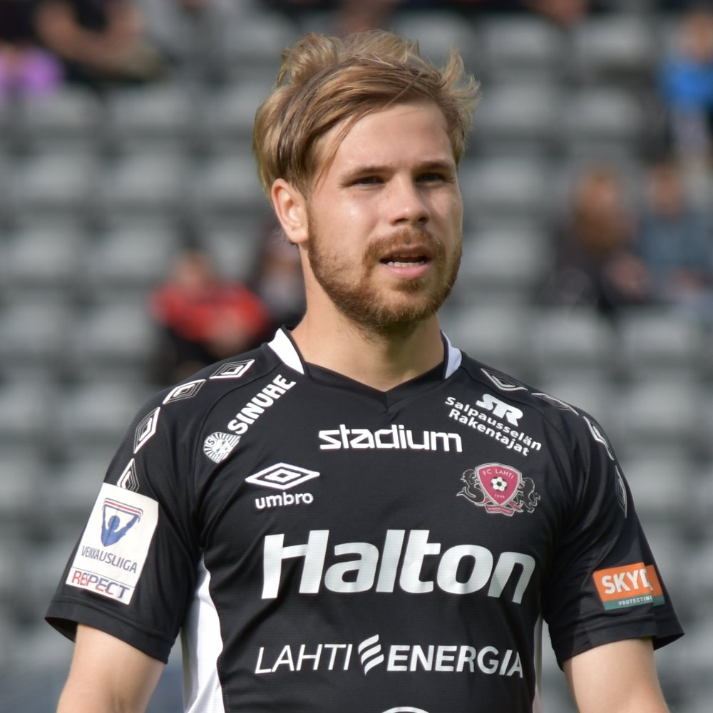 Football player Aleksi Paananen (FC Lahti)